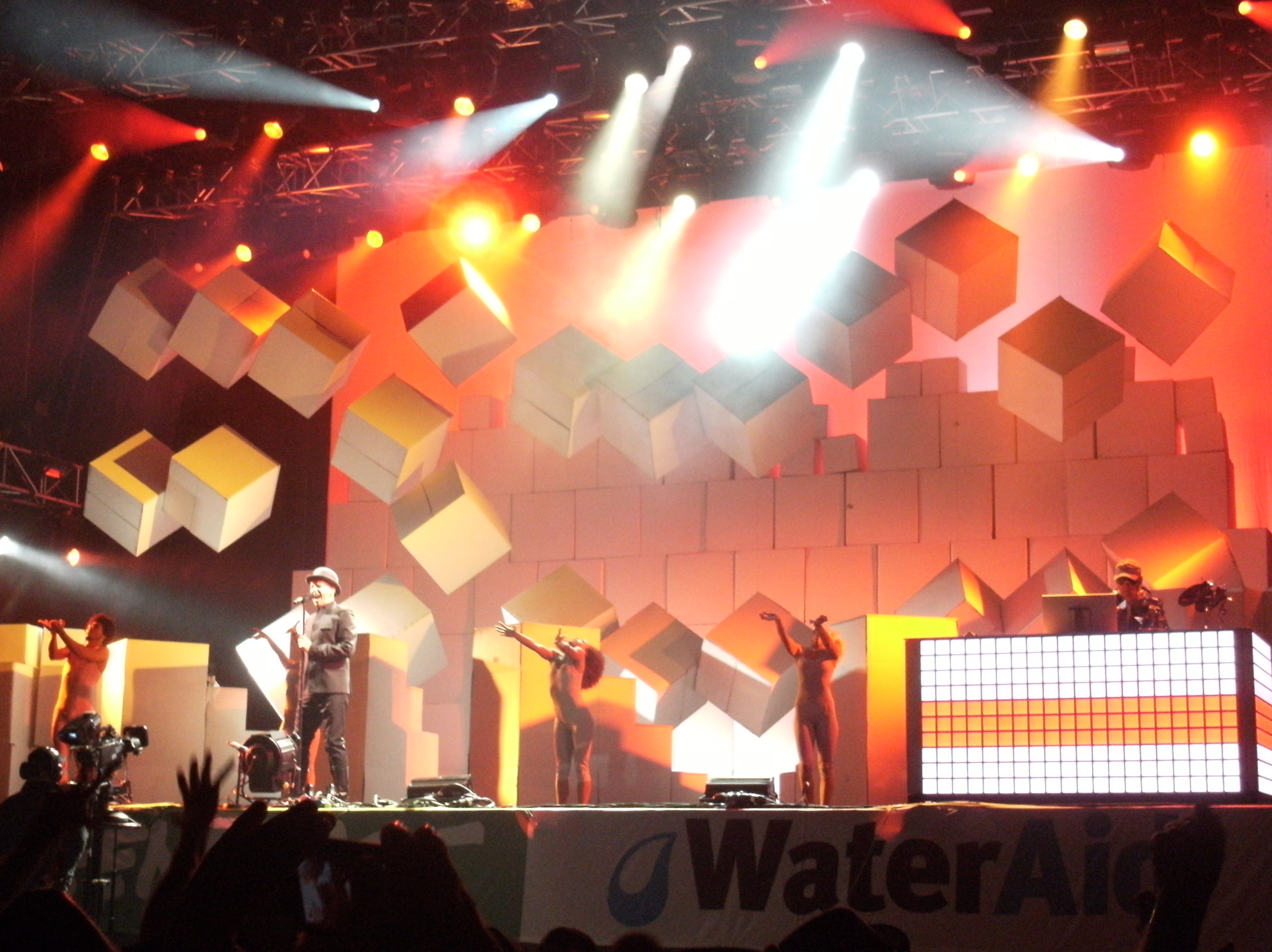 Pet Shop Boys on at the Other Stage on Saturday night.